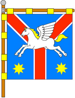 Flag of Zhmerynka (Vinnitsa Oblast Ukraine)